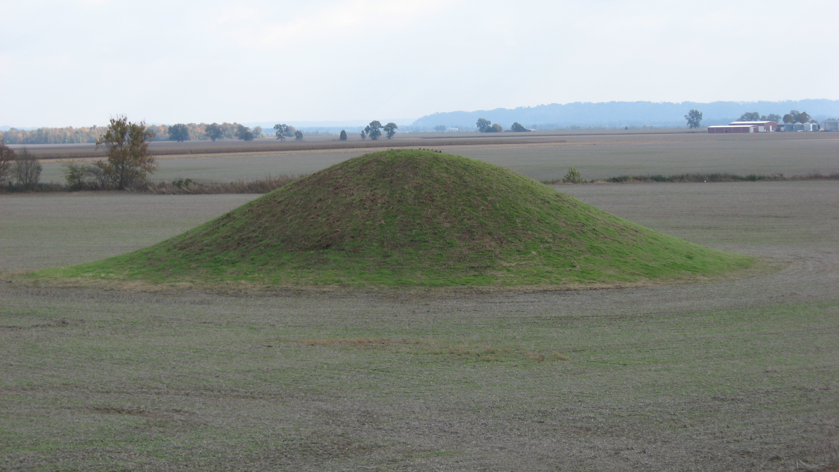 Looking south from Illinois Route 3 (the Great River Road) toward the Cleiman Mound and Village Site, an archaeological site located north of Jacob in far southern Kinkaid Township, Jackson County, Illinois, United States. The mound and village (which lies primarily beyond the stream behind the mound) are together listed on the National Register of Historic Places.